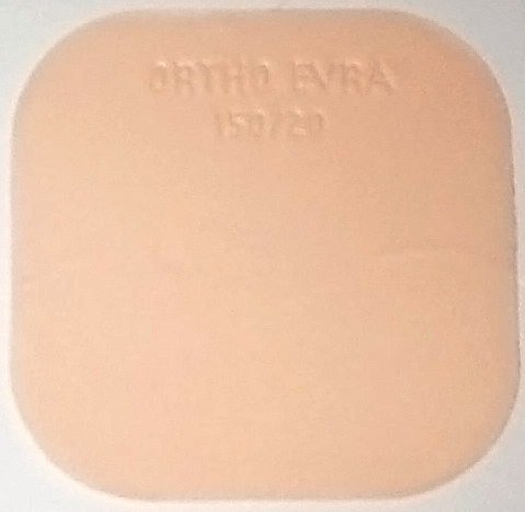 OrthoEvra contraceptive patch on white computer paper.